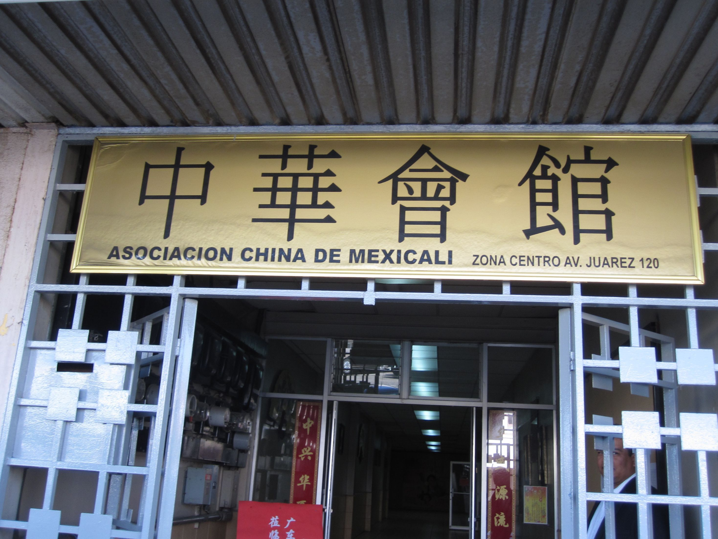 Asociación China de Mexicali 中華會館